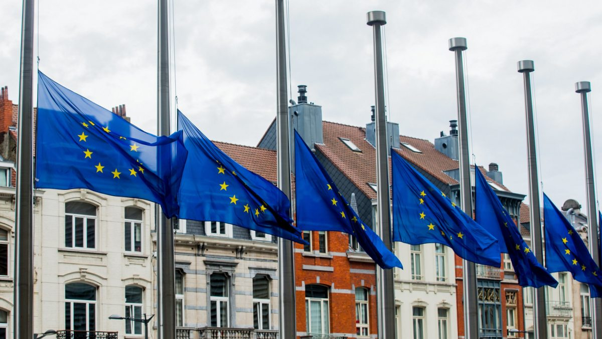 European Union flags fly at half-mast in victims of 2017 Barcelona attacks